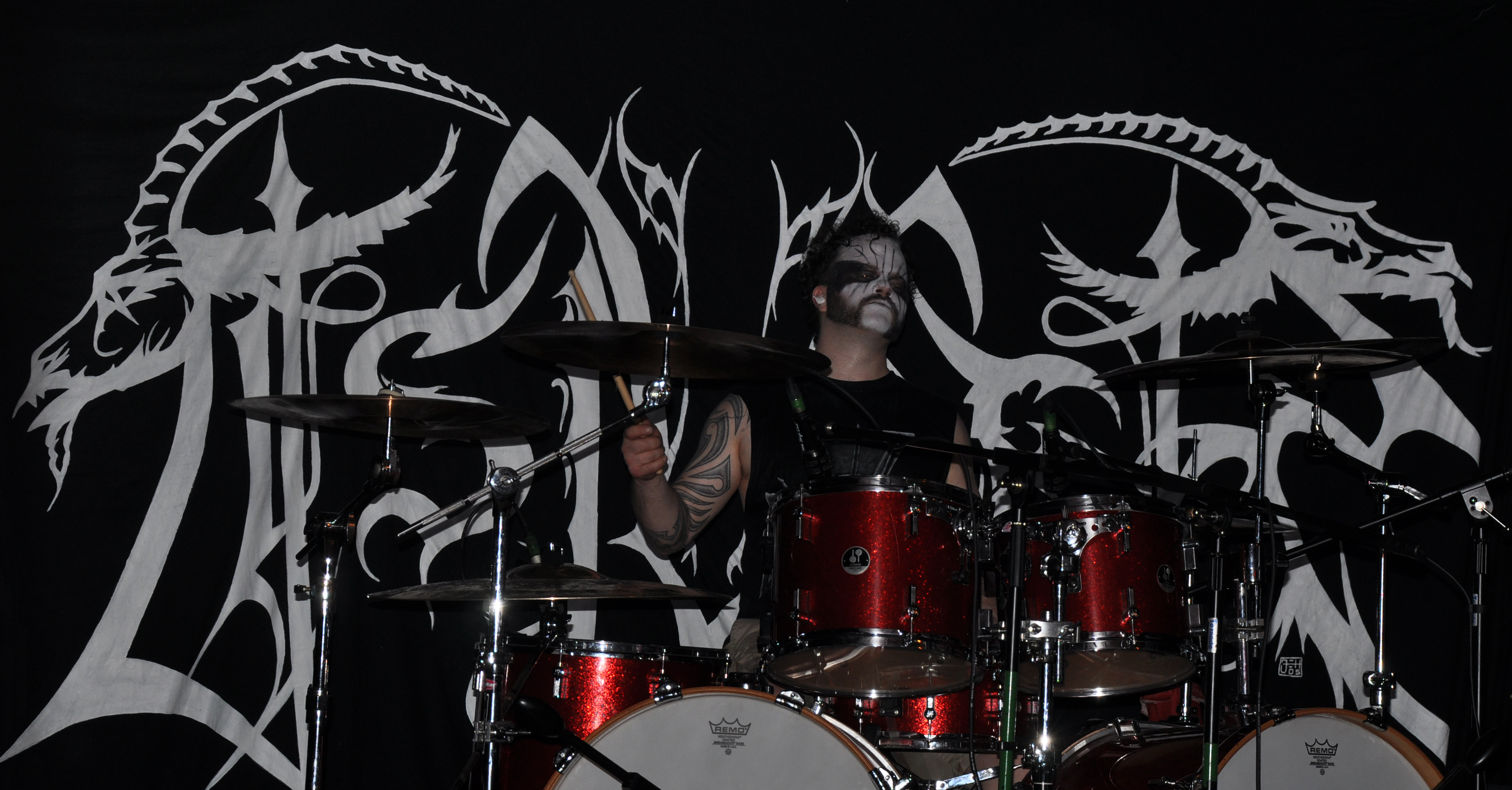 Tsjuder performing in the Péniche Igel Rock, Valenciennes (France), on the 3rd of March 2012.